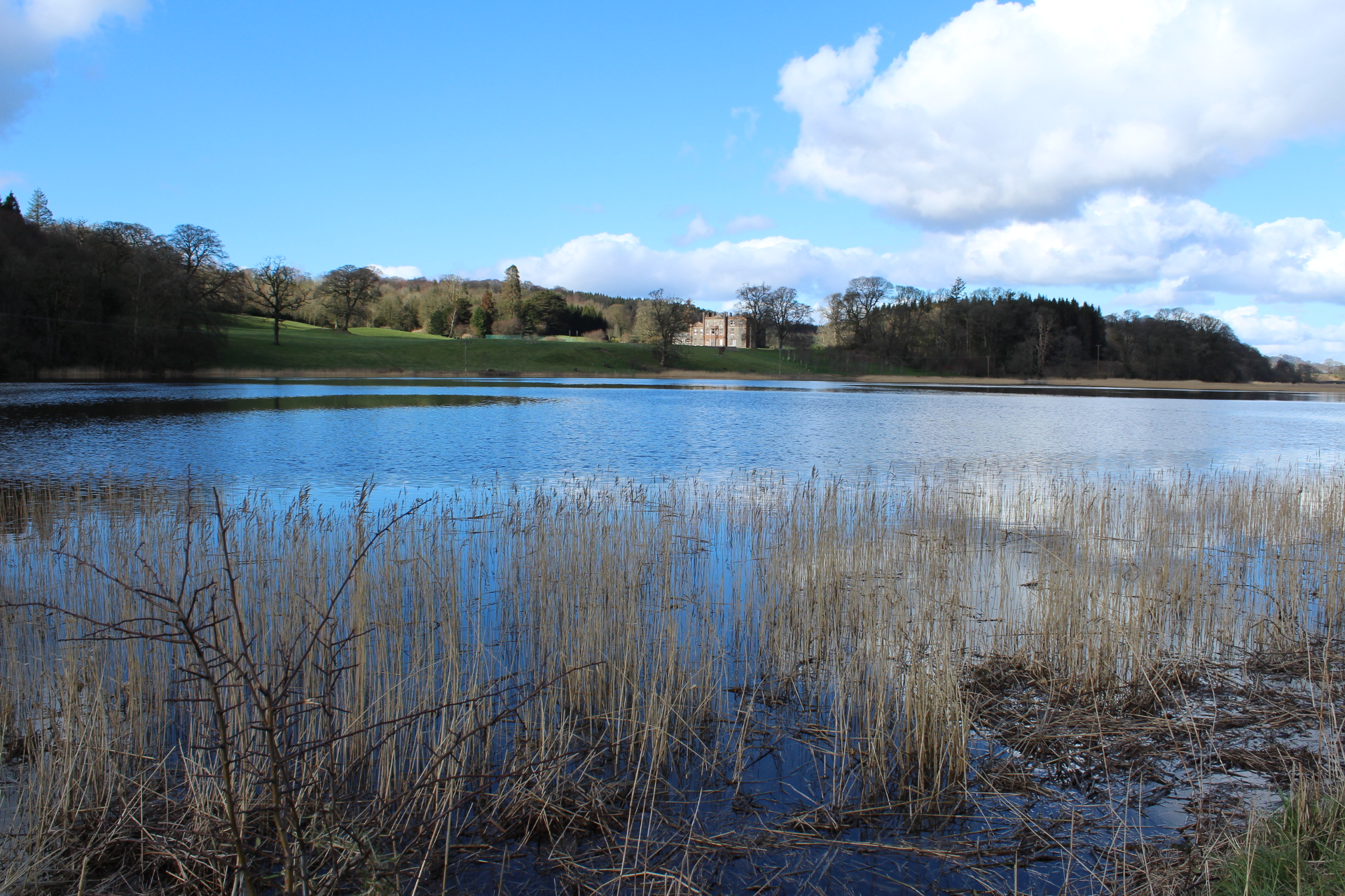 River Dee at Cumstoun. Cumstoun House is in the distance.